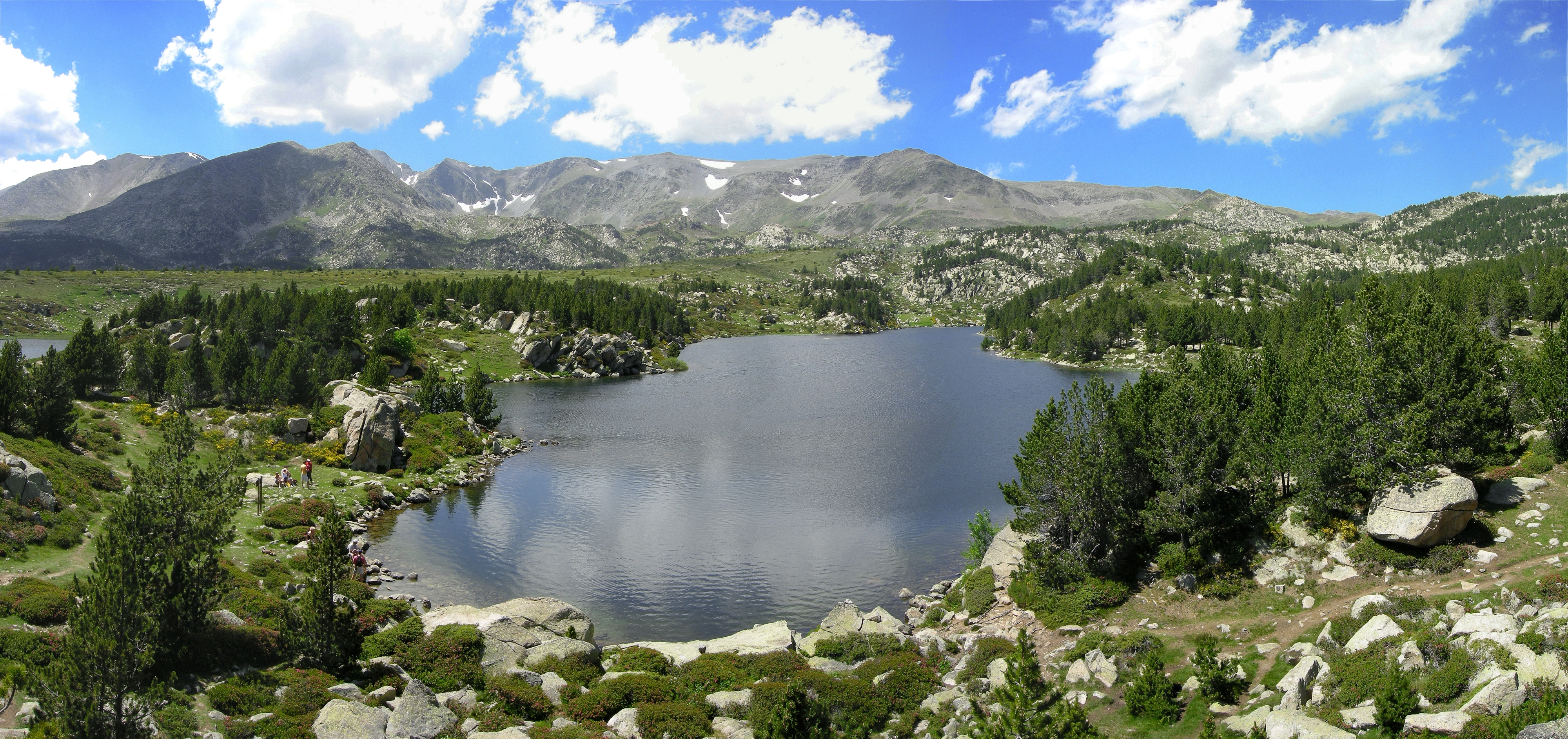 The mountain lake "La Coumasse" (2160 m) in the nature reserve "Lacs des Bouillouses" (facing westwards), located in the french department Pyrénées-Orientales.